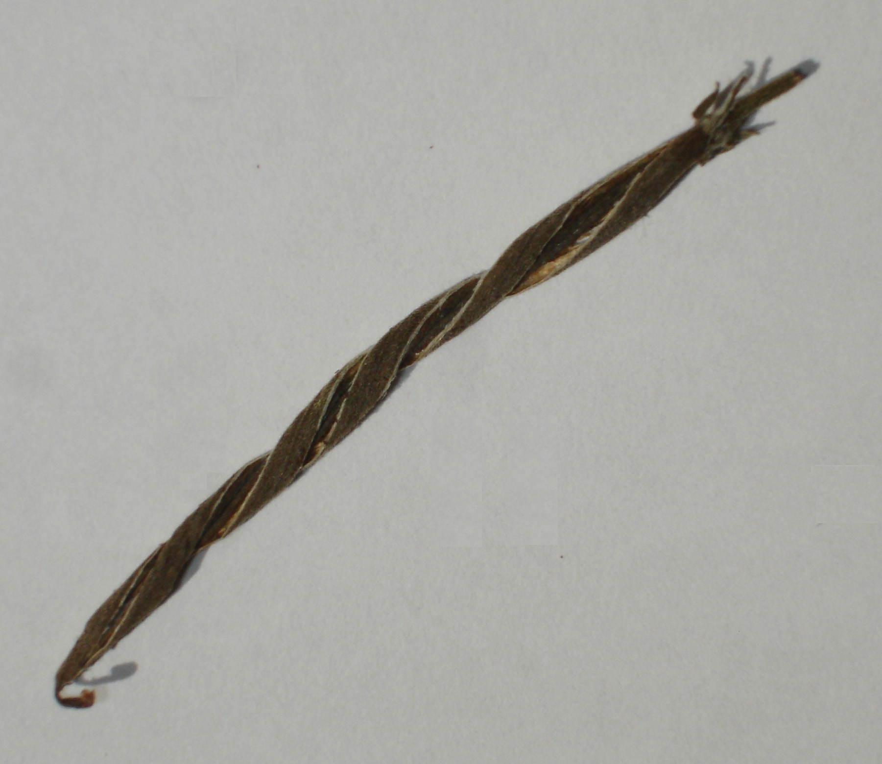 Streptocarpus.fruit